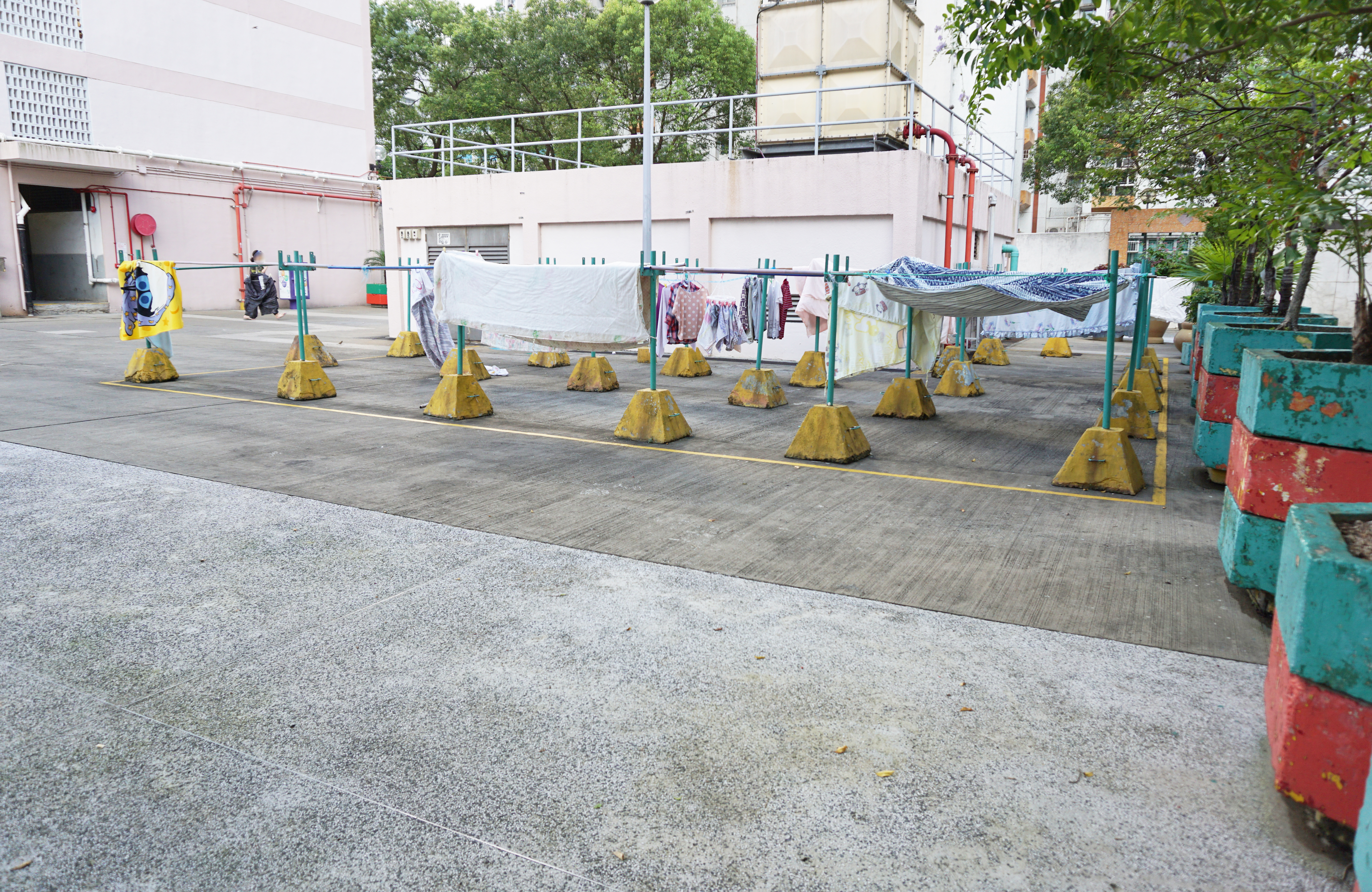 Yue Wan Estate in Chai Wan, Hong Kong.